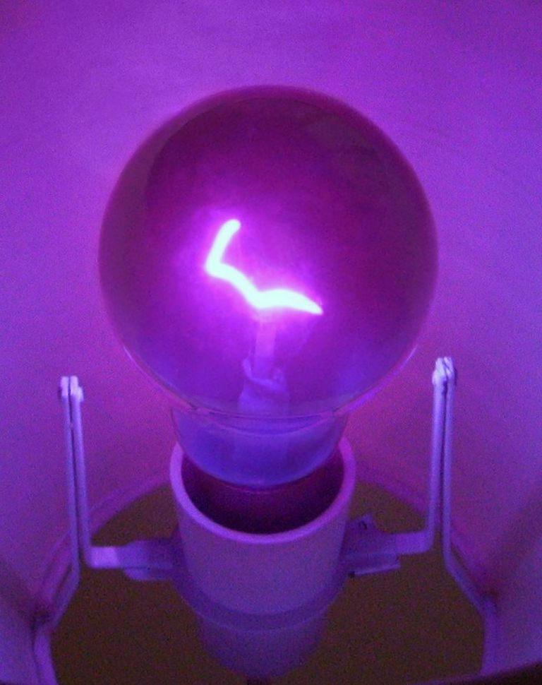 A 100 watt "black light" ultraviolet light bulb. This is an incandescent bulb with a coating on the glass which selectively absorbs visible light and passes ultraviolet. Since only a tiny fraction (0.1%) of the light emitted by the filament is ultraviolet, most of the light is absorbed by the coating, so the bulb gets very hot, and has a short lifetime. Because of differences between the UV response of the camera sensor and the human eye, the camera failed to capture the color of the bulb quite accurately; the filament actually appears magenta, not white.